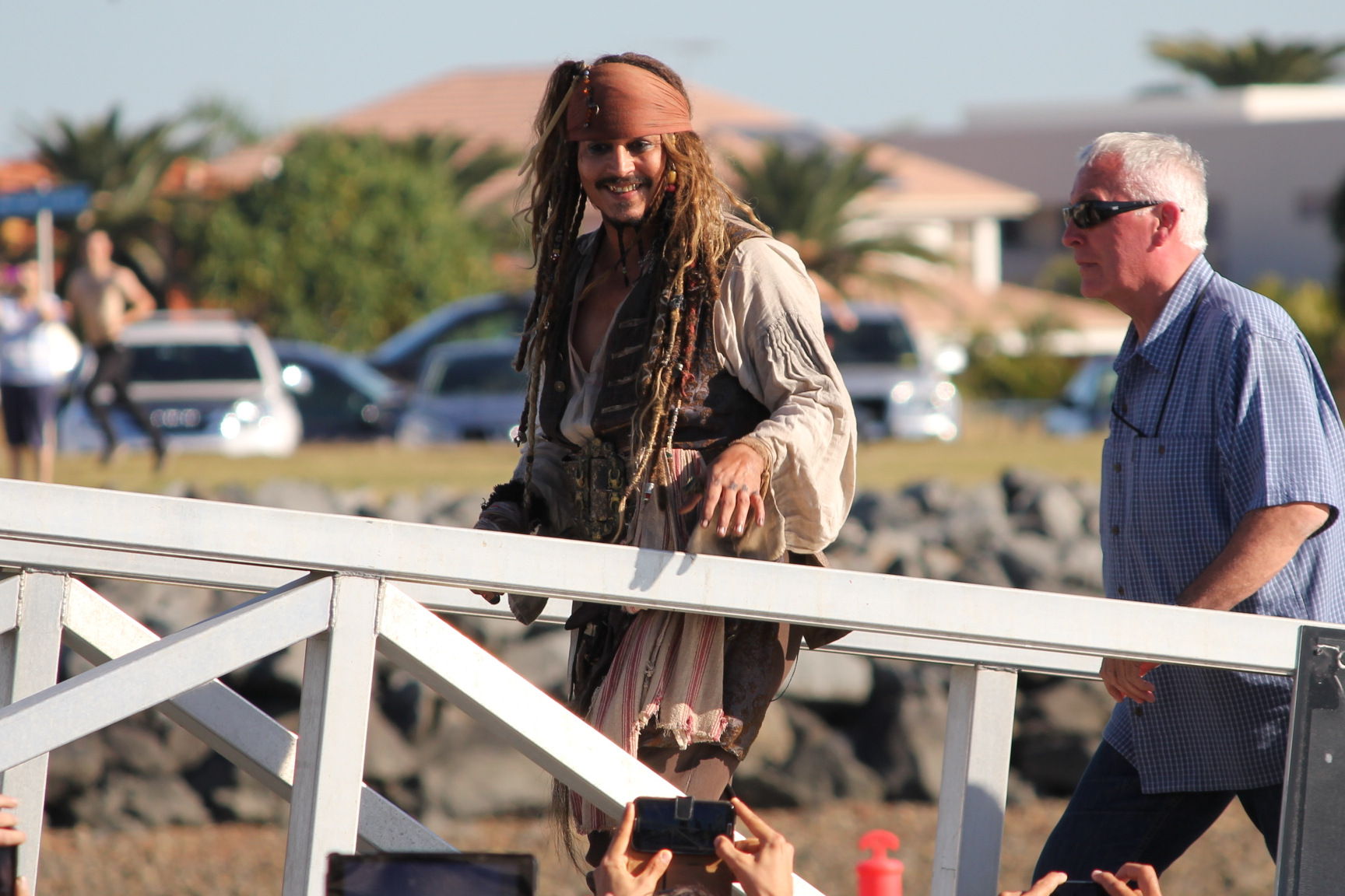 Johnny Depp in full costume returning to land in Cleveland, Queensland after a day of filming for the movie Pirates of the Caribbean: Dead Men Tell No Tales. Located at the Raby Bay Volunteer Marine Rescue on June 4, 2015.